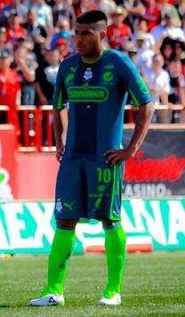 Santos player Daniel Ludueña